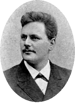 Image scanned from the book "Svenskt Porträttgalleri XX - Arkitekter, Bildhuggare, Målare m.fl. " ("Swedish Portrait Gallery XX - Architects, Sculptors, Painters, ") published 1901